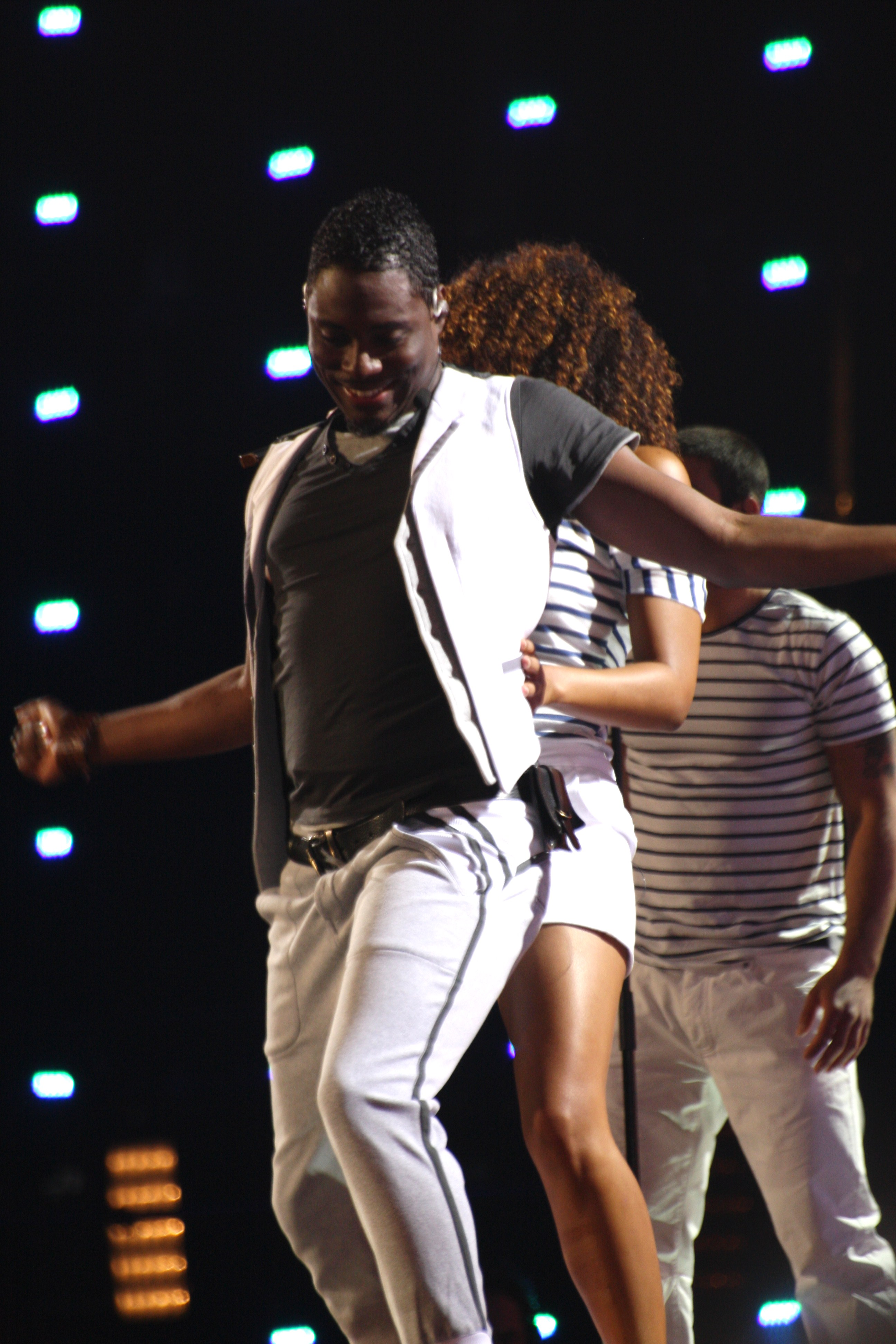 Jessy Matador, artist of France in Eurovision Song Contest 2010, rehearsal, Telenor Arena. Norway.